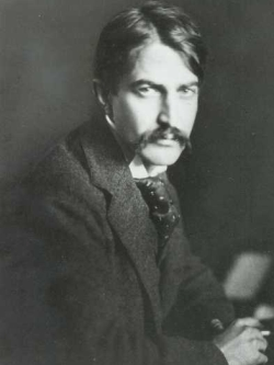 American author Stephen Crane in 1899